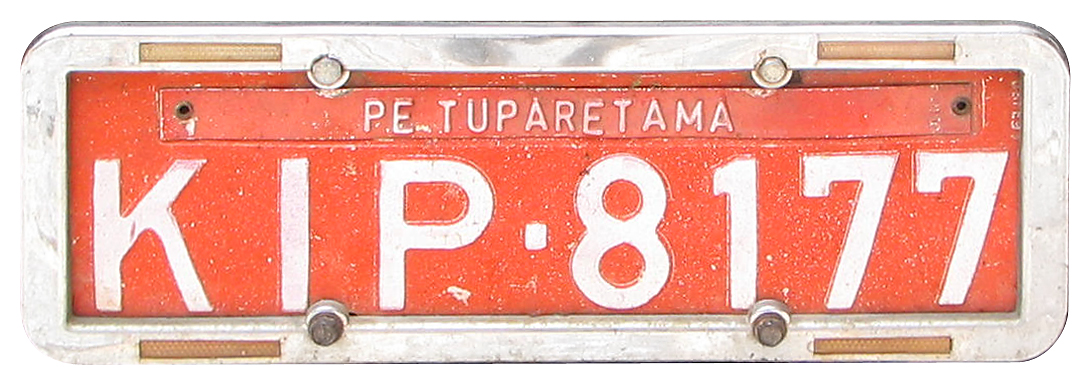 Front license plate of a truck in the state of Pernambuco (city of Tuparetama) in the northeast of Brazil